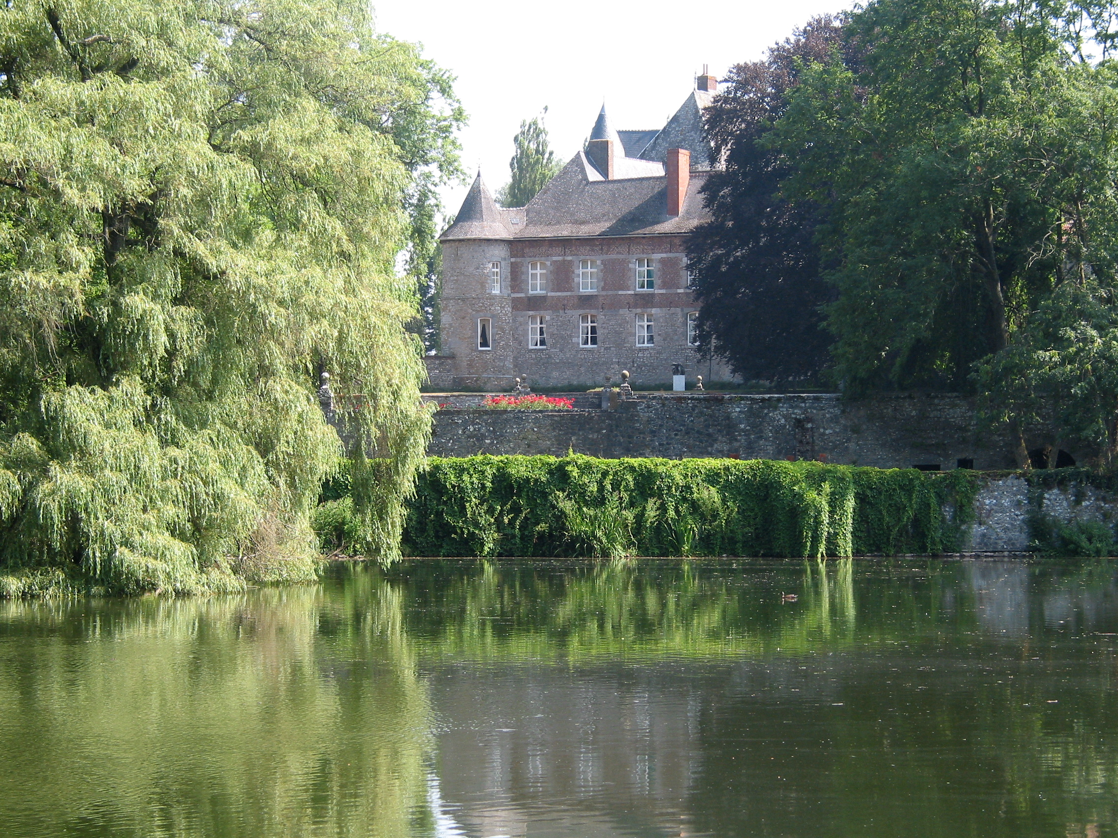 Leers-et-Fosteau (Belgium), the castle, the garden and the pond (XIV-XIXth centuries).